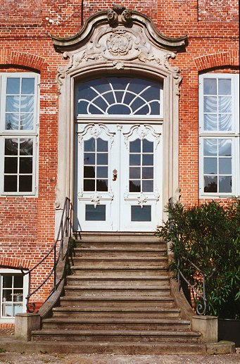 Drostei Pinneberg, Germany